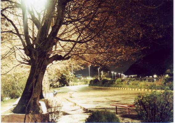 around of lahijan pool